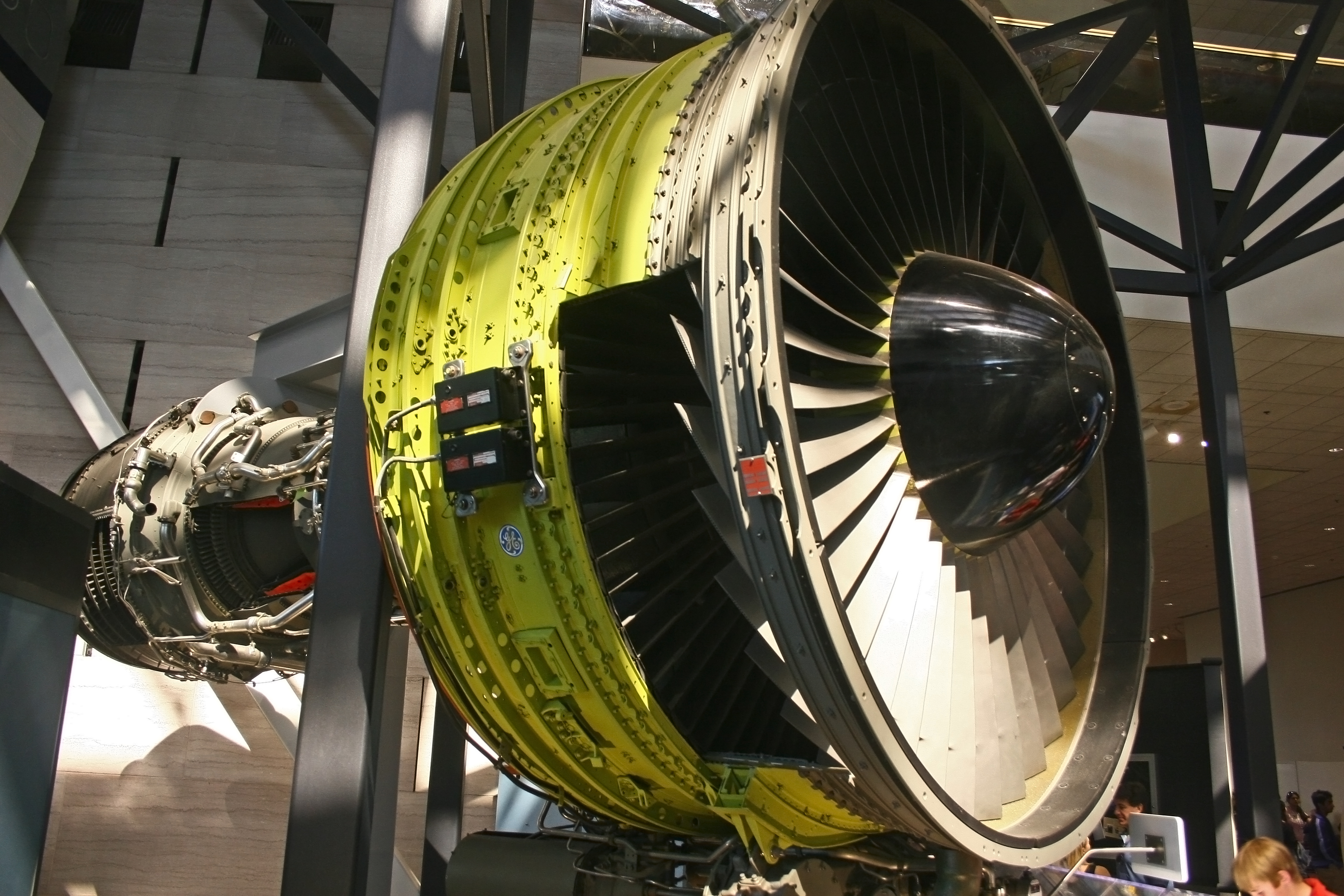 A high-bypass turbofan engine (CF6) by General Electric. It was originally built as the TF39 for the US Air Force's giant Lockheed C-5A Galaxy Transport. Commercial use was first on the McDonnell Douglas DC-10. It has since been installed on Boeing 747/767 McDonnell Douglas MD-11 and Airbus A300/A310/A330. Displayed at The National Air and Space Museum at DC, USA.